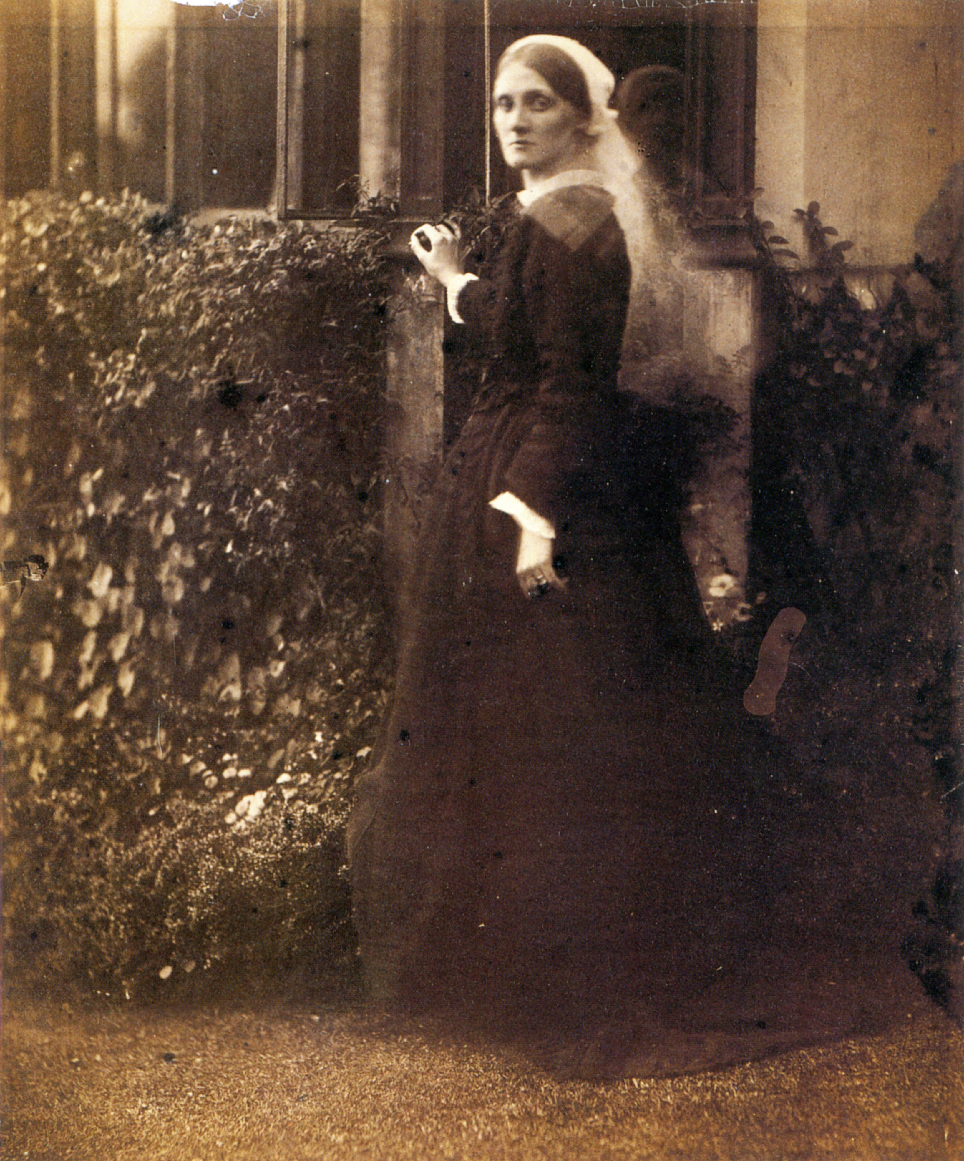 Julia Duckworth in Garden. Depicts Julia Duckworth, nee Jackson, niece of Julia Margaret Cameron. Albumen print, 300 x 247mm (11 3/4 x 9 3/4").